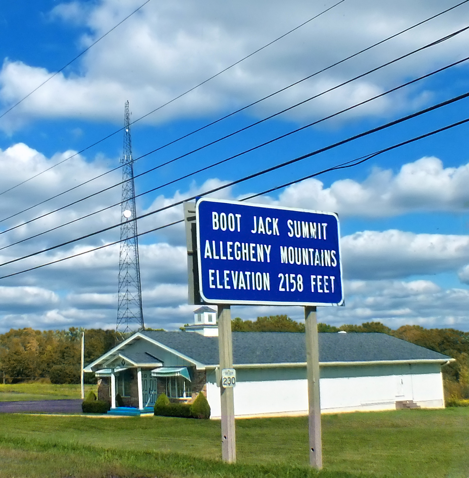 Elevation sign along PA Route 948/US Route 219, Ridgway Township, Elk County.